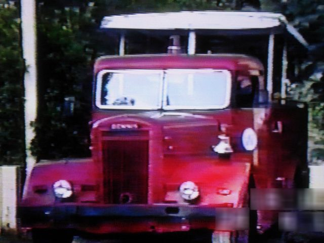 Filmed on a video camera on April 24, 1994, played back on VHS on a plasma televison and took picture of television with my digital still camera. Can be used for any purpose for any reason.